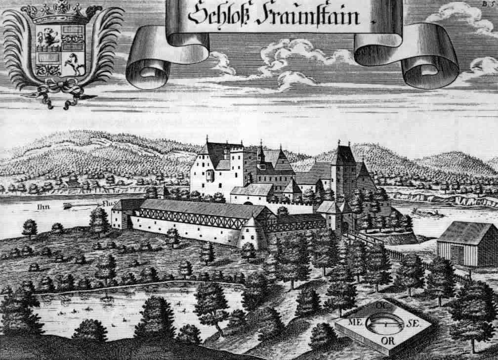 Frauenstein castle Mining Upper Austria